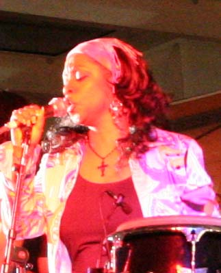 This is a photo of Regina Belle taken by Hugh Pickens on January 25 , 2008 at a concert on the Holland America ship Westdam.